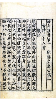 Compilation of Ouyang Xiu, Song printed edition (宋刊本欧陽文忠公集, sōkanpon ōyō bunchūkōshū) Kanazawa Bunko edition (金沢文庫本, kanazawa bunkobon). Part of 39 books bound by fukuro-toji, 28 × 18.5 cm (11 × 7.3 in). Located at Tenri Central Library, Tenri, Nara, Japan.